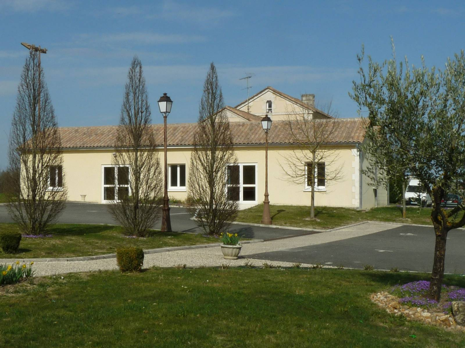 community hall